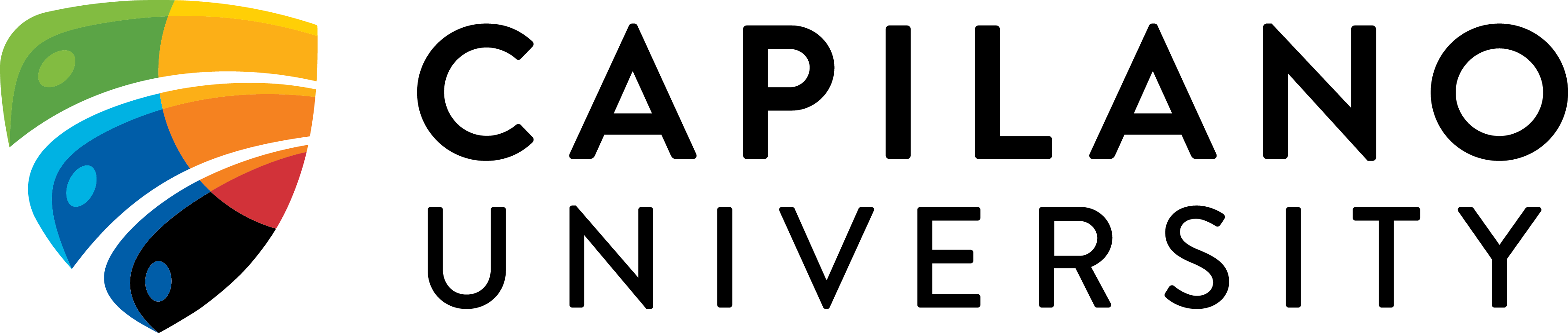 Capilano University logo